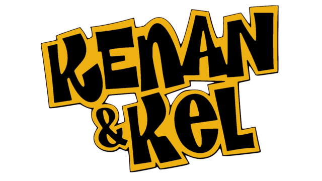 Kenan & Kel logo